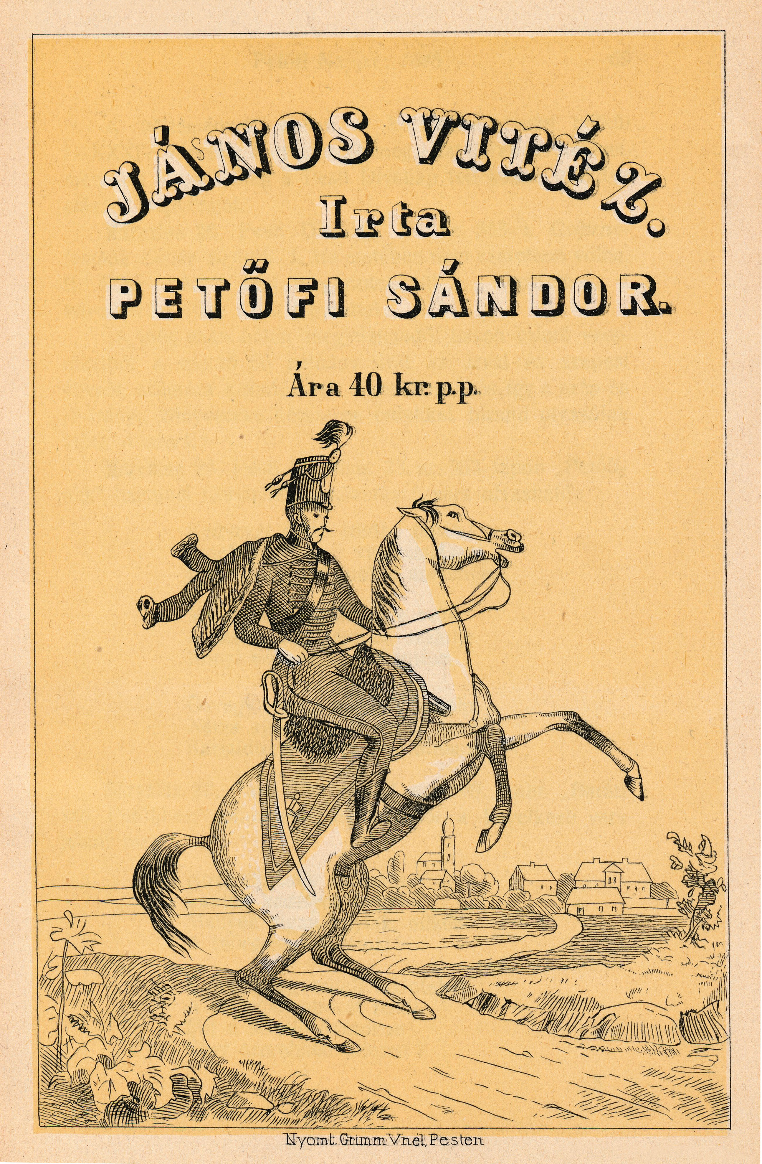 Front cover of the first edition of Sándor Petöfi"s poem - János Vitéz Author: Imre Vahot - Buda, 6. March, 1845. Drawing: Vince Grimm (1800-1872) ( Original frame size: 100 x 157mm